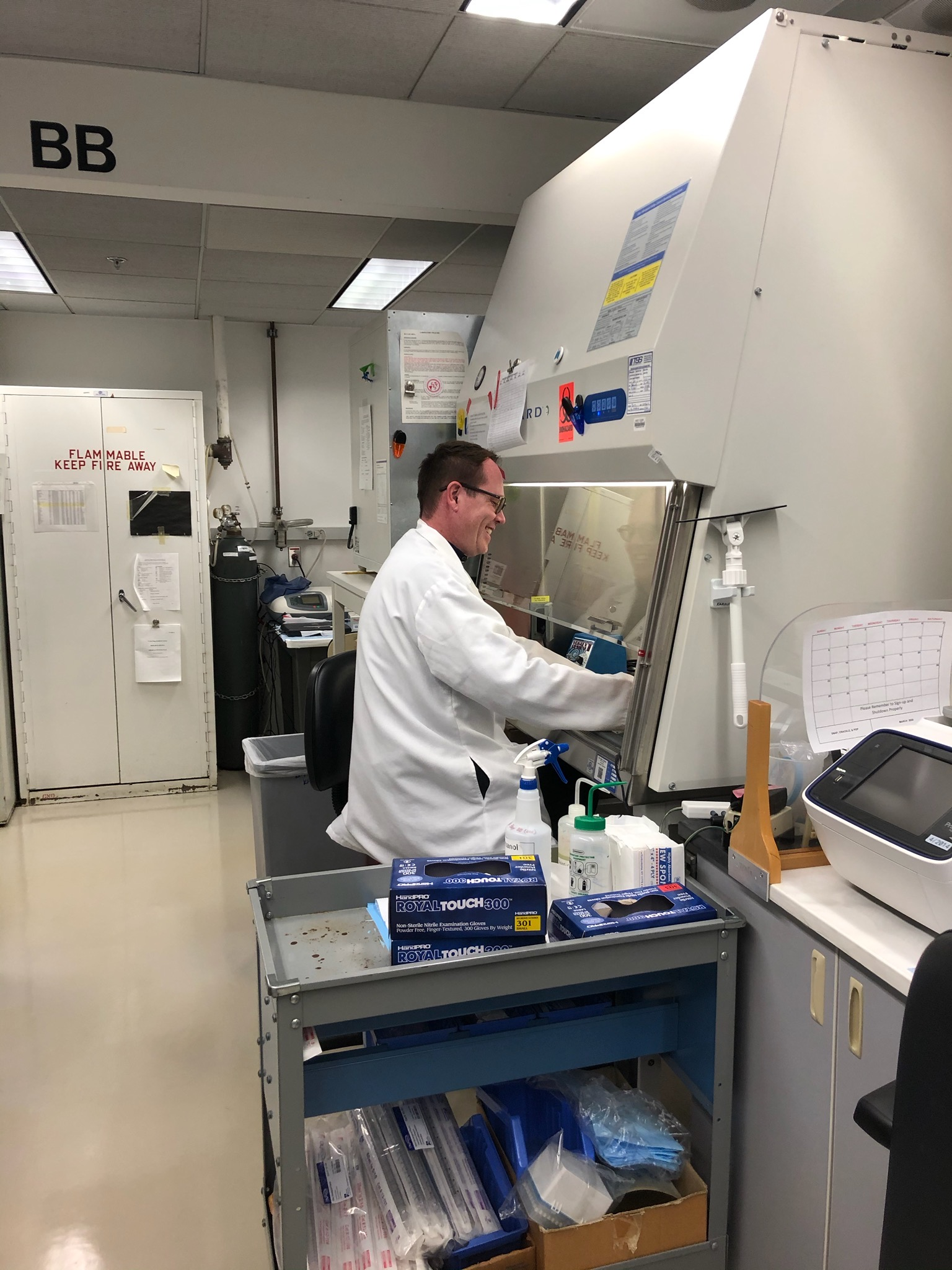 Davey Smith working in the laboratory